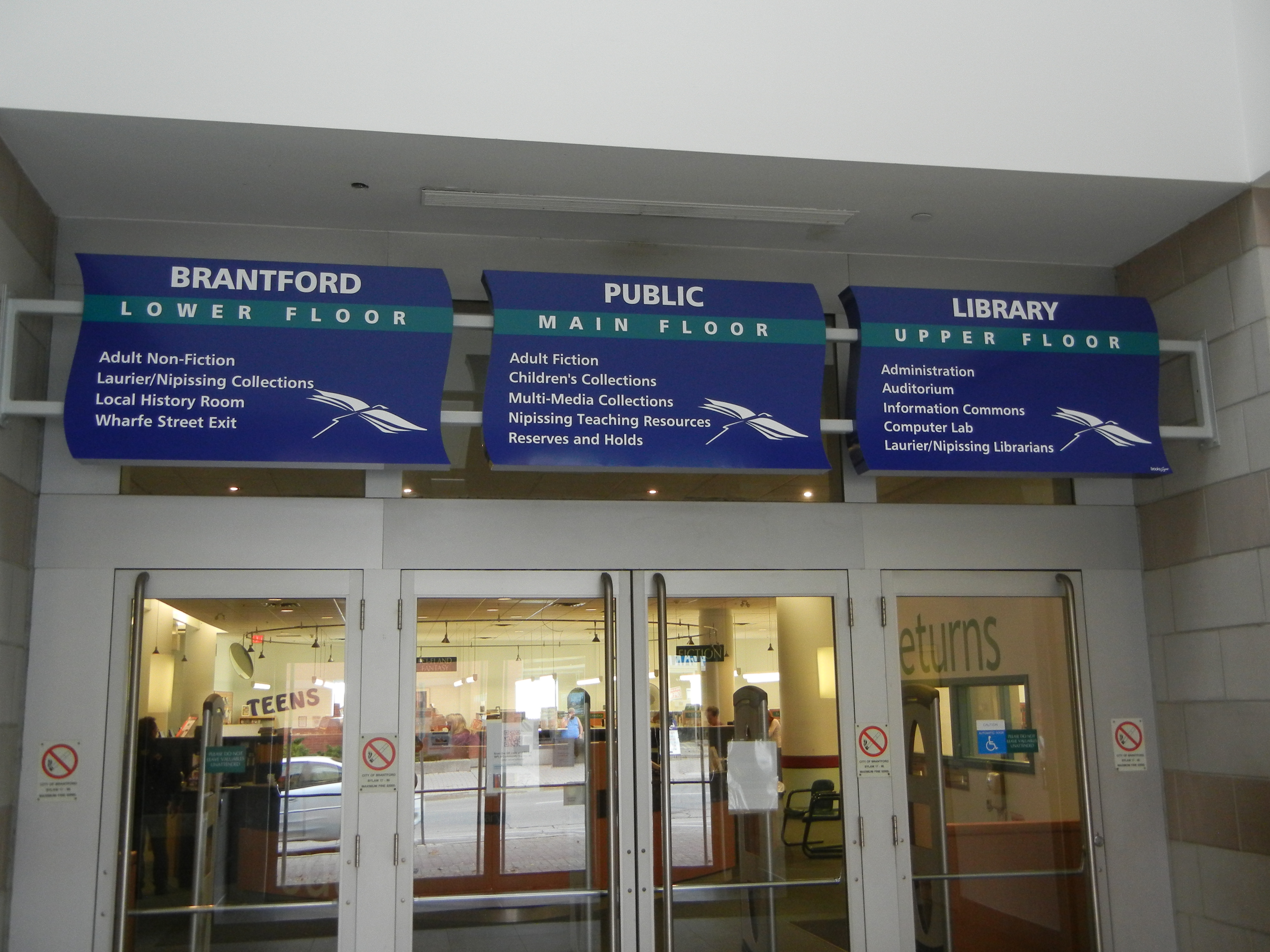 Image showing the inner front door and directory of services in the Brantford Public Library in Brantford, Ontario, Canada.